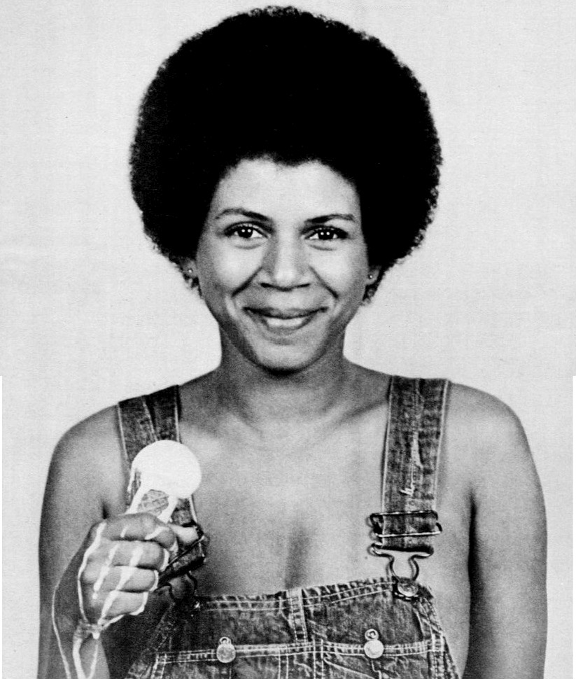 Photo of Minnie Riperton from an Epic Records ad.